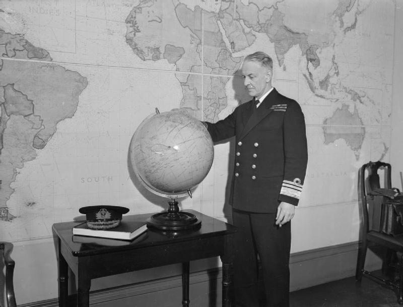 Photograph of Vice Admiral Sir E Neville Syfret standing before his wall chart in his office at the Admiralty in London.